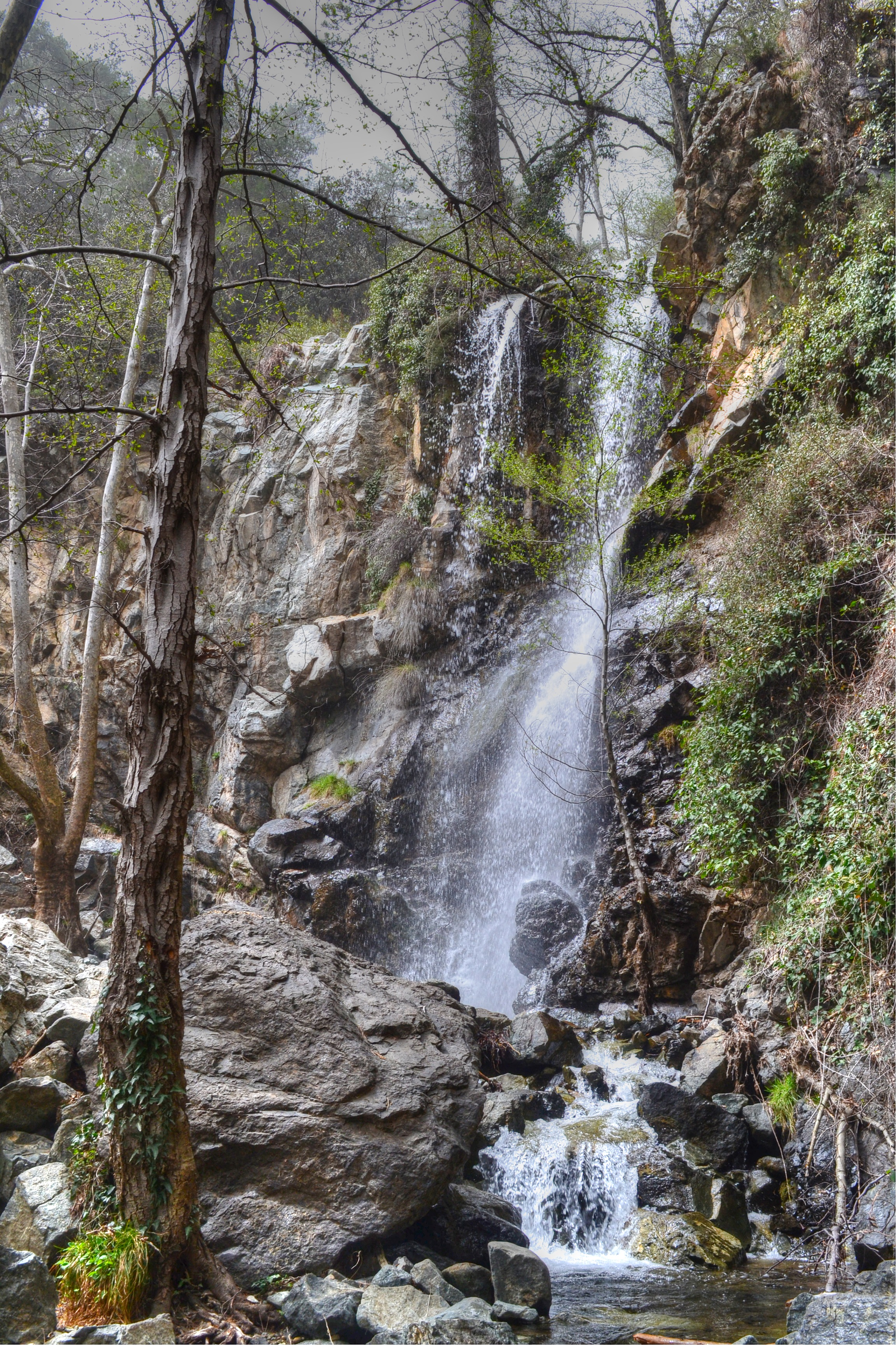 this waterfall lacated in cyprus at troodos mountain